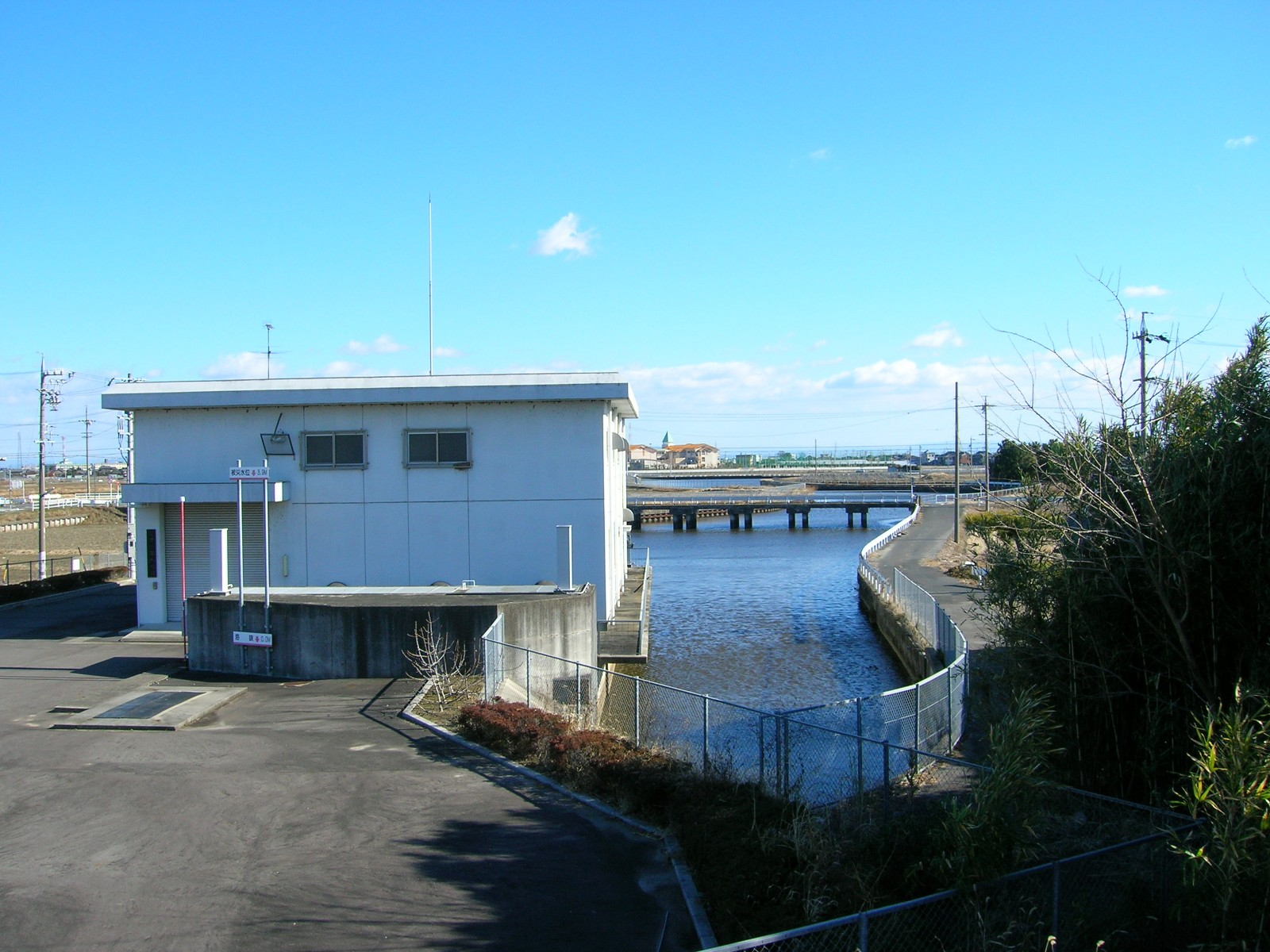 Nabeta River (Nabeta-gawa) and Shibaigawa Drainage pumping station. Loc: Yatomi city, Aichi Prefecture, Japan. 鍋田川 撮影場所 愛知県弥富市・芝井川排水機場